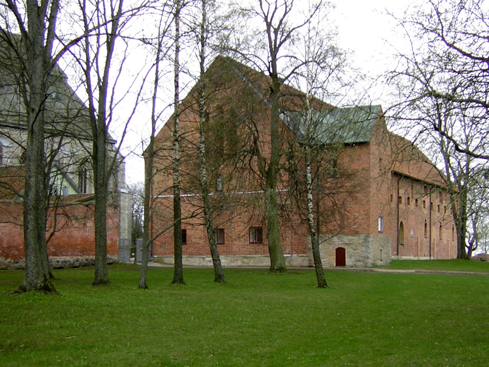 Foto: Ulf Nyberg 3 mars 2006 kl.22.54 UN 1600x1200 (438400 bytes) (Foto:Ulf Nyberg )